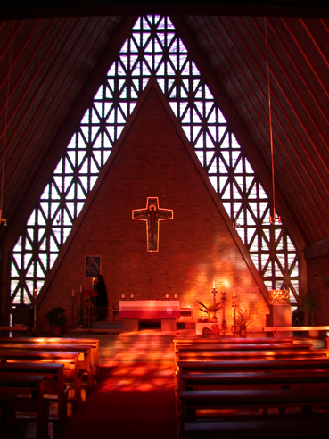 Wallfahrtskirche Maria Hilf in Trutzhain